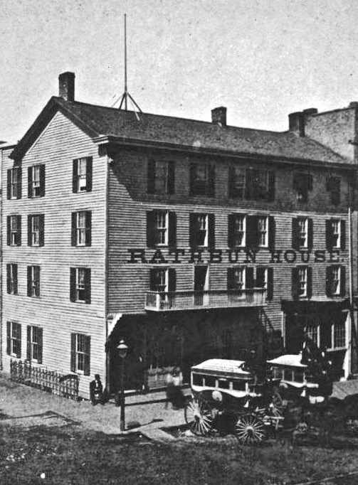 Portion of the Rathbun House that was originally constructed by Louis Campau in 1834.